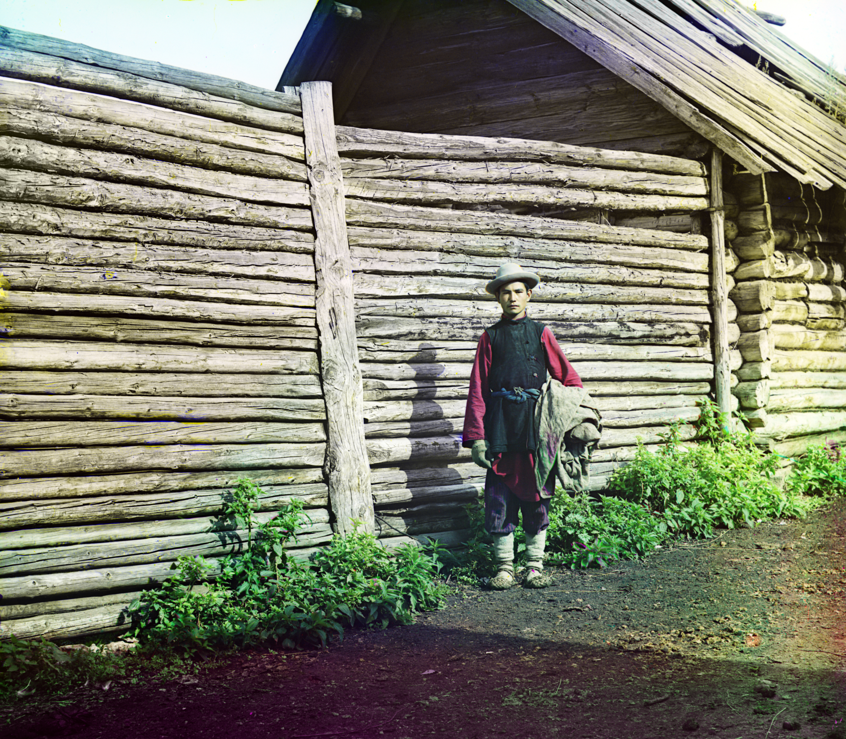 Young Bashkir. (Ekhia)